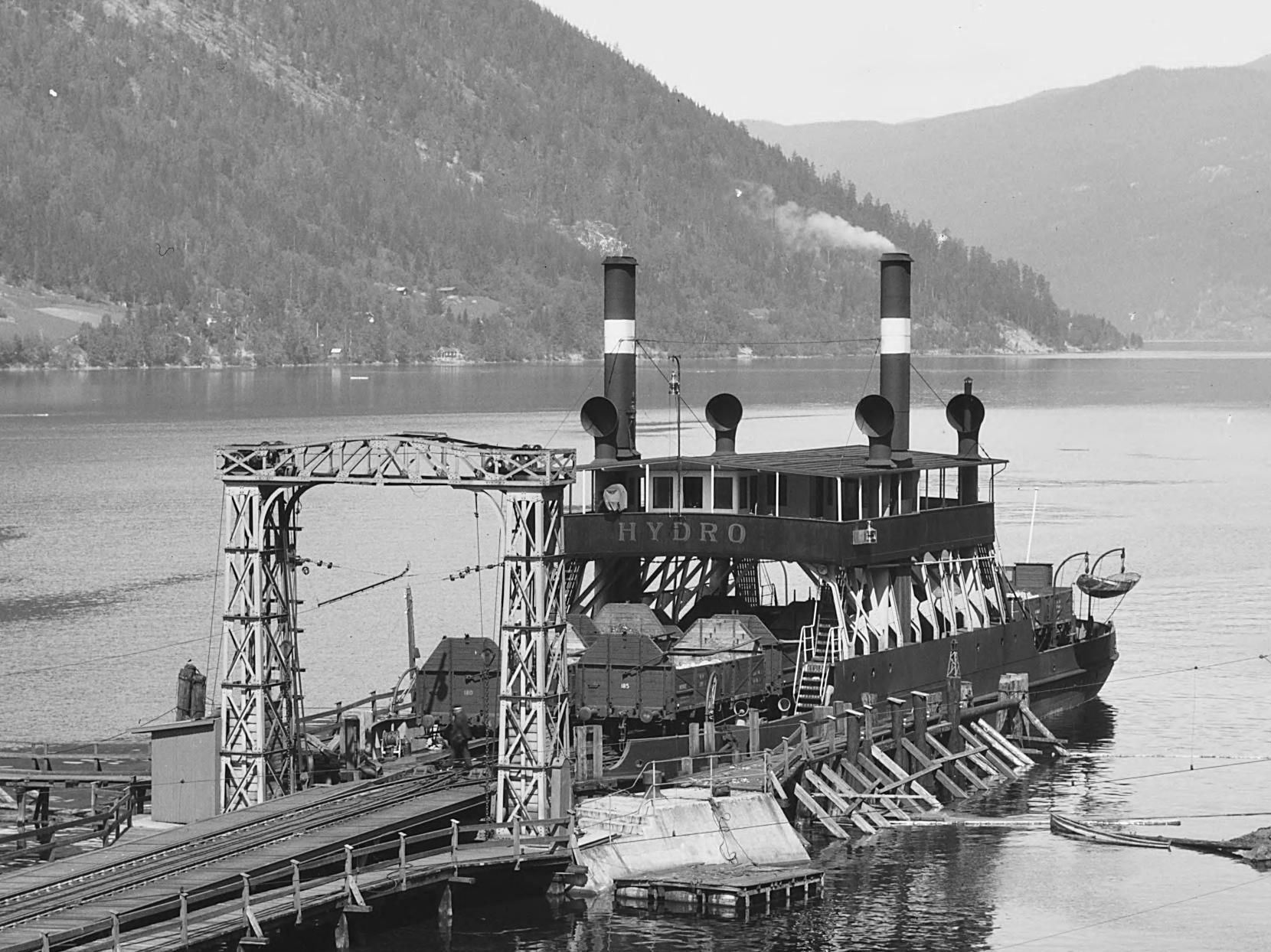 D/F Hydro that operated between Rollag and Mæl as a railway ferry. Sunk by Norwegian resistance during World War II; a key event to hinder Nazi Germany from developing nuclear weapons.